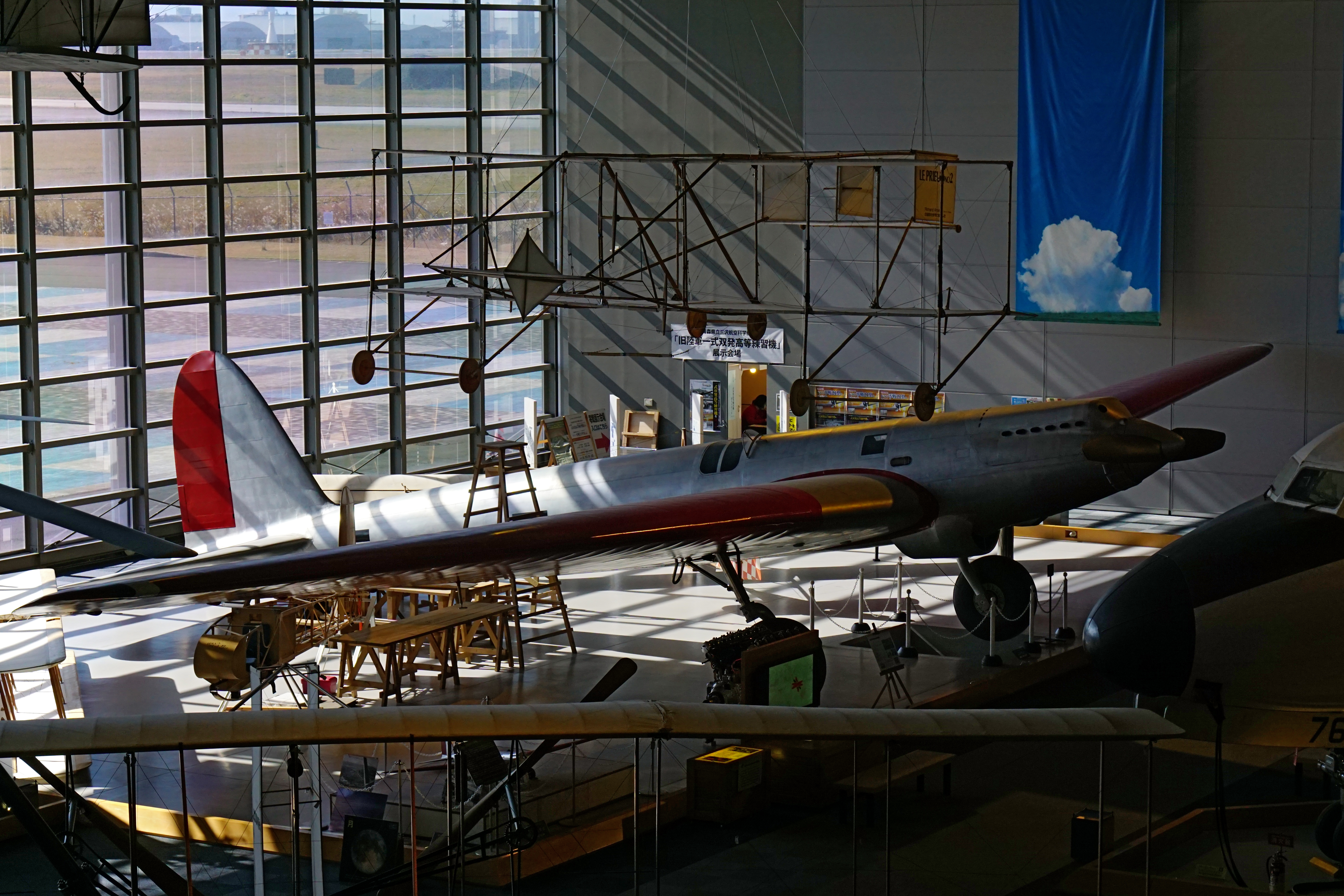 At Misawa Aviation & Science Museum, Aomori in Misawa, Aomori prefecture, Japan.